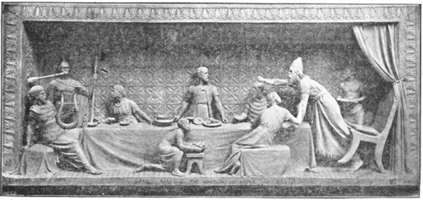 "Saul Throws Spear at David" by George Tinworth, Terra cotta Bas relief